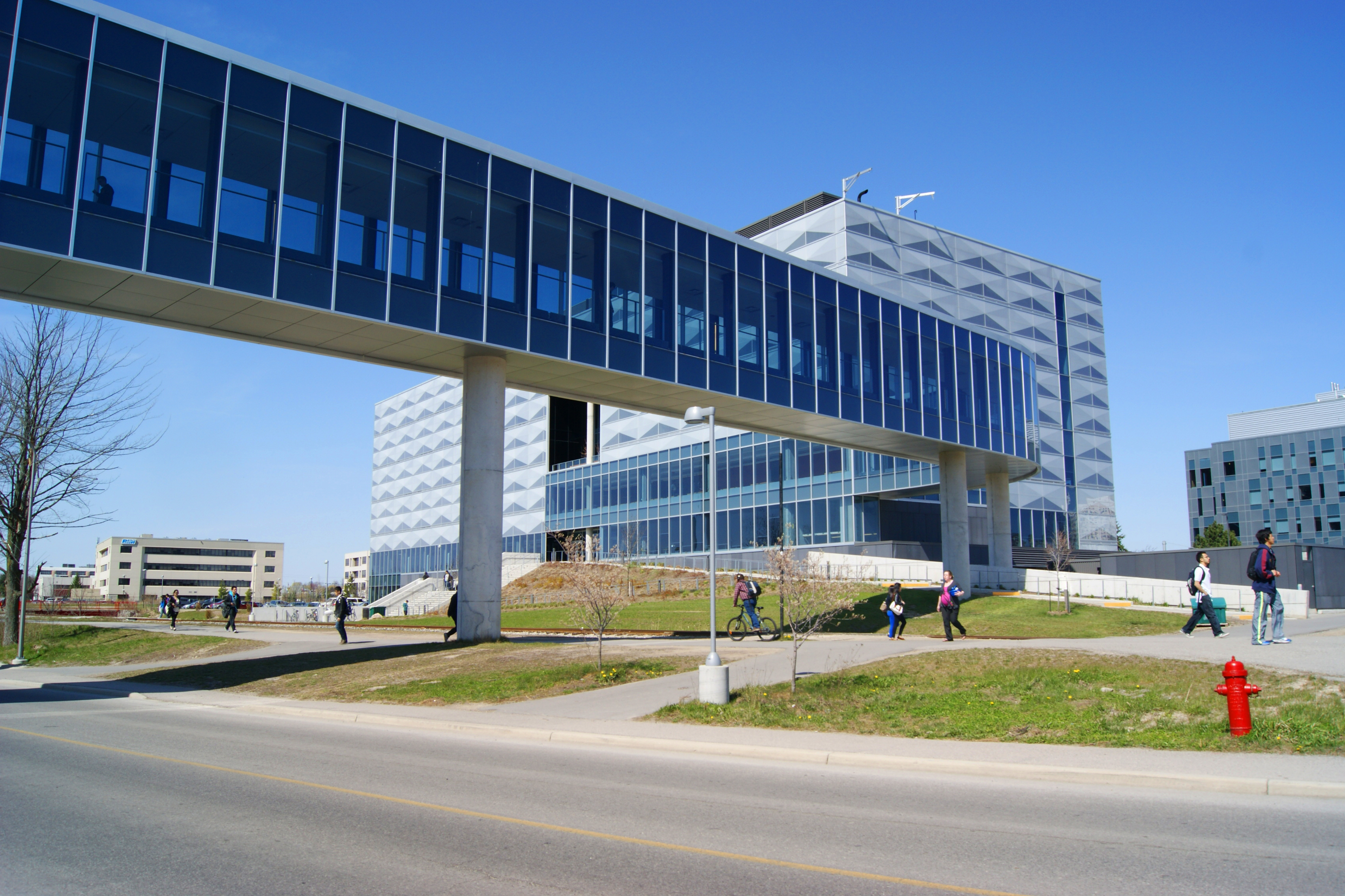 A bridge connecting Engineering 2 and Engineering 5 at the University of Waterloo